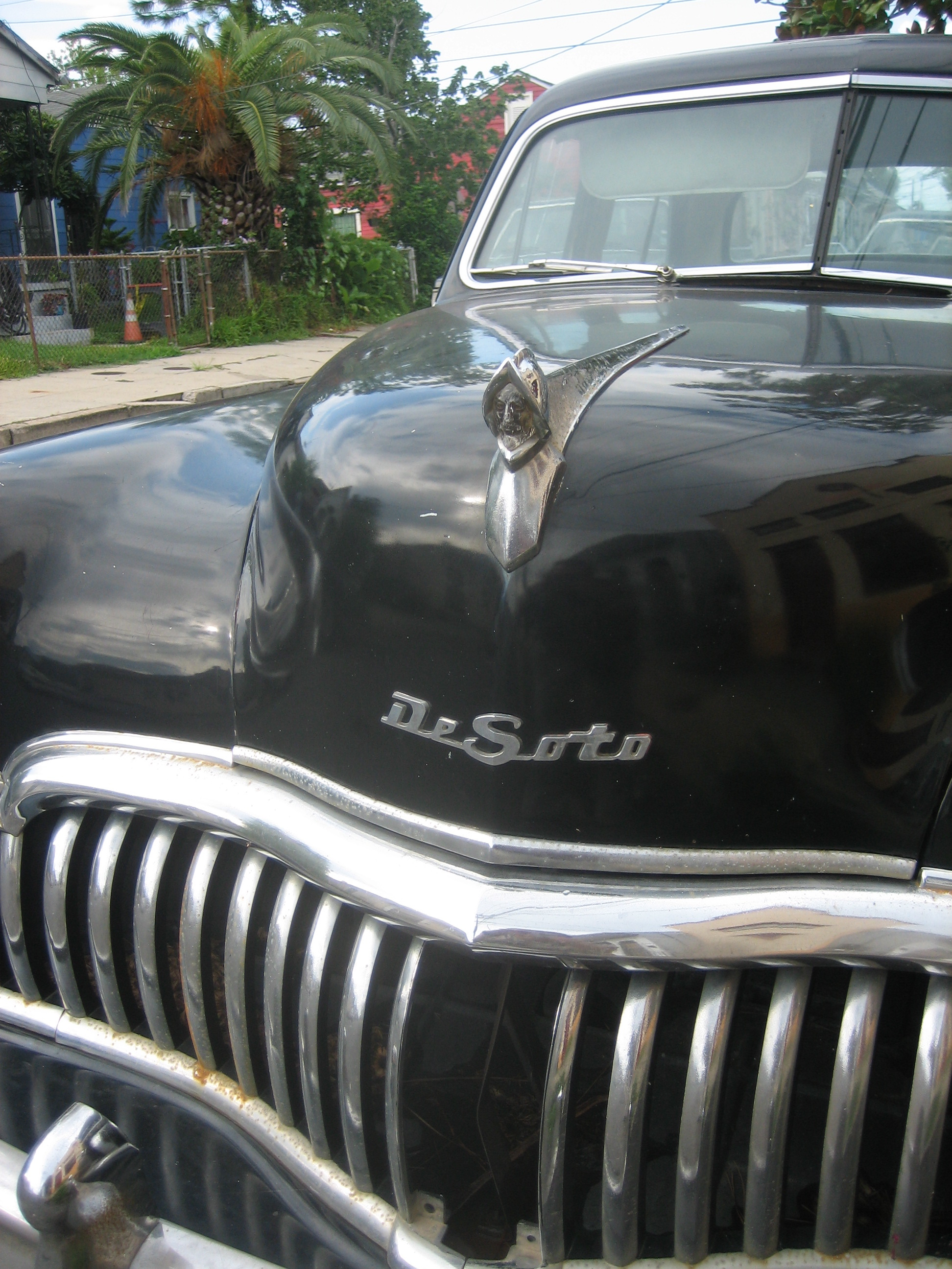 Hood ornament on Old DeSoto Custom Series seen on street in Mid City neighborhood of New Orleans